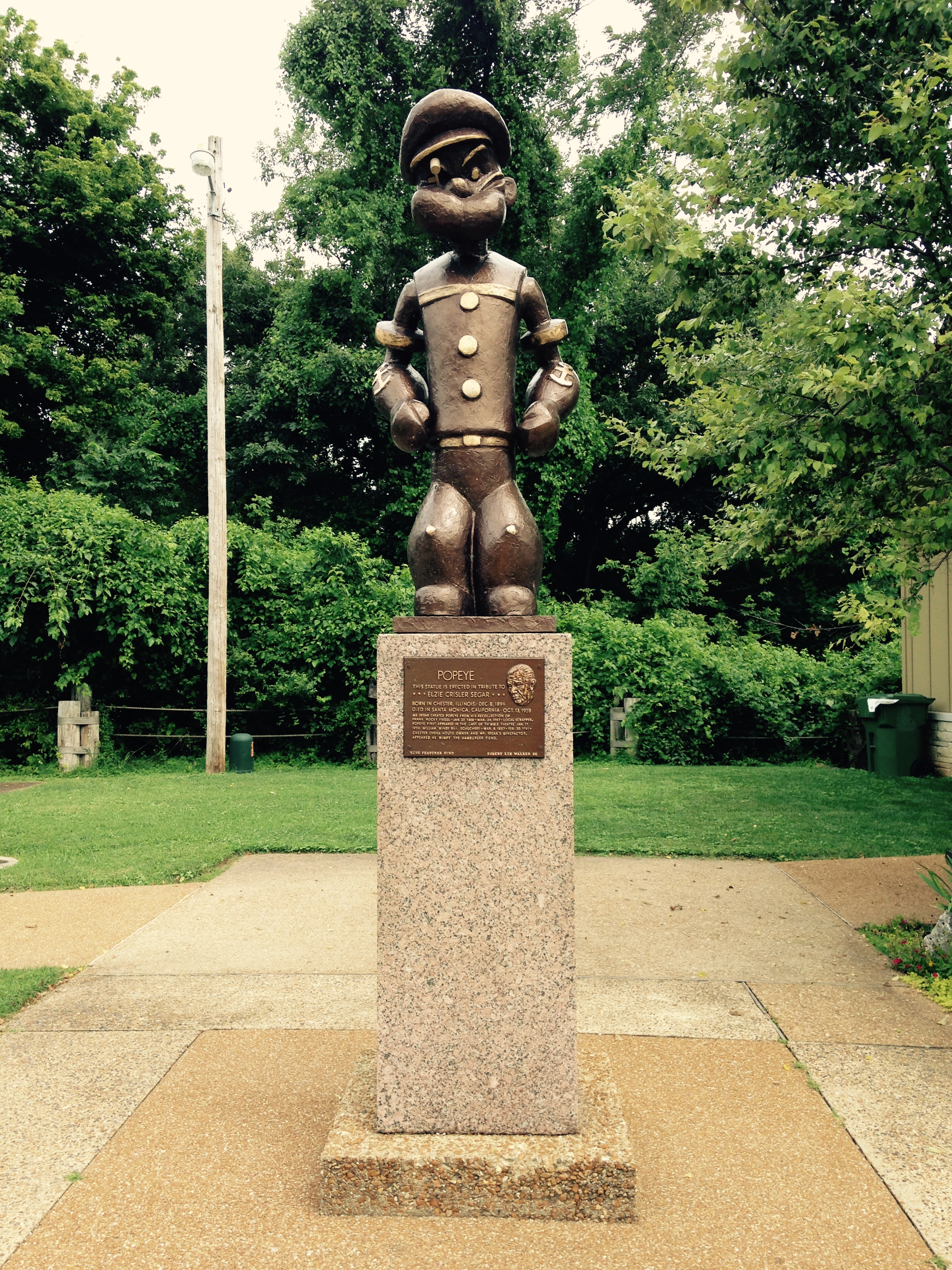 The Popeye statue in Segar Park beside Chester Bridge in Chester, Illinois.